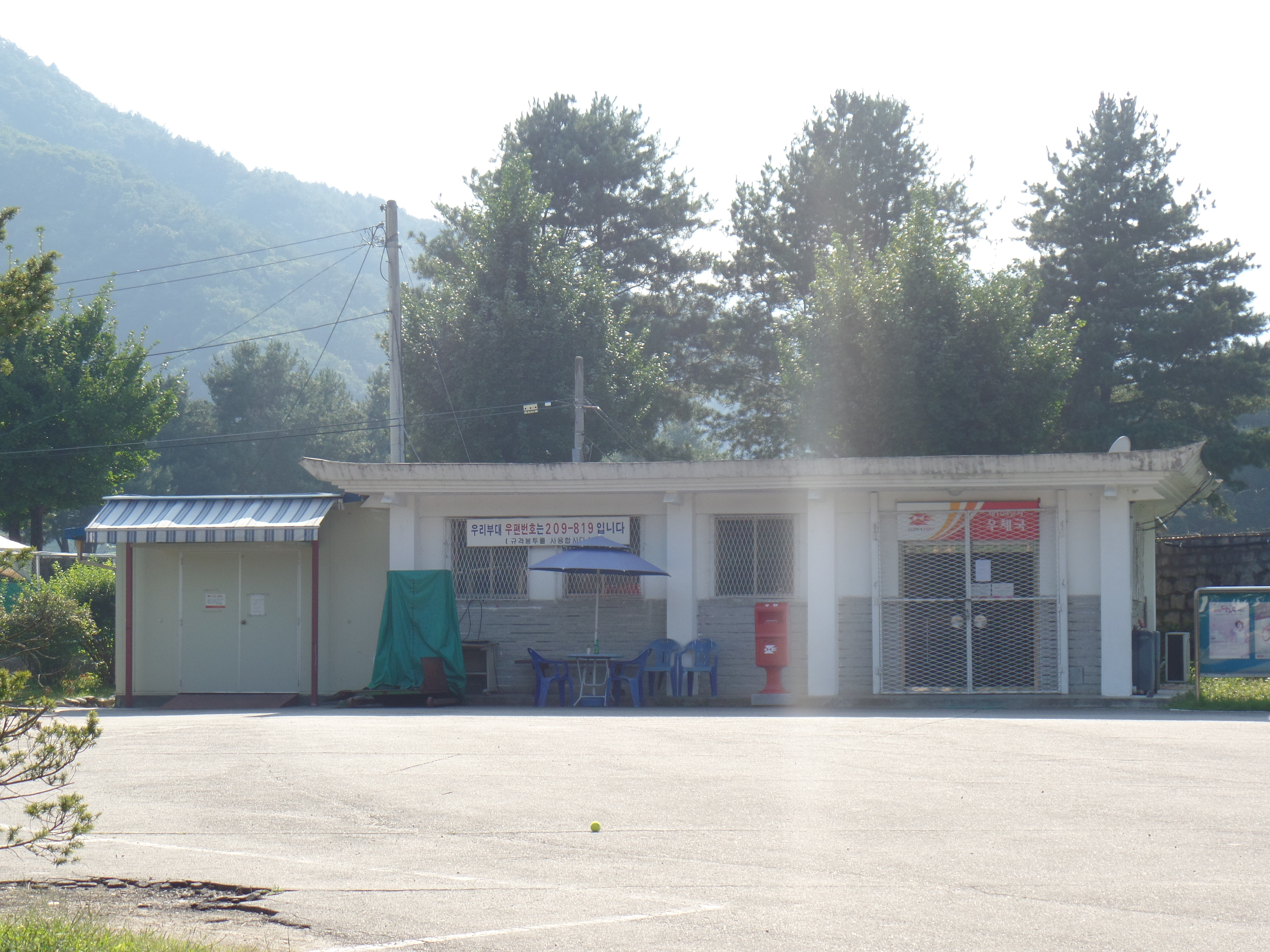 Military Post Office in Republic of Korea Army 7th Infantry Division Headquarters